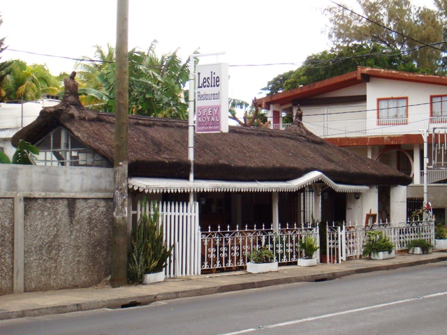 Leslie Restaurant, Flic en Flac.